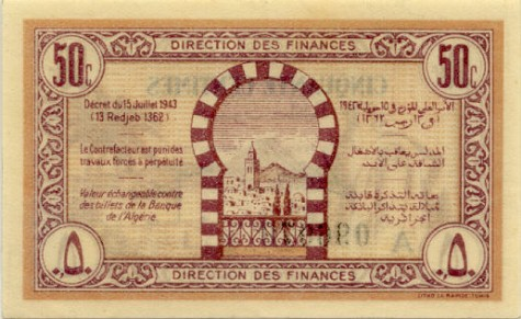 50 centimes banknote issued in 15.07.1943 (13 Redjeb 1362 H), printed in Tunis, Tunisia.